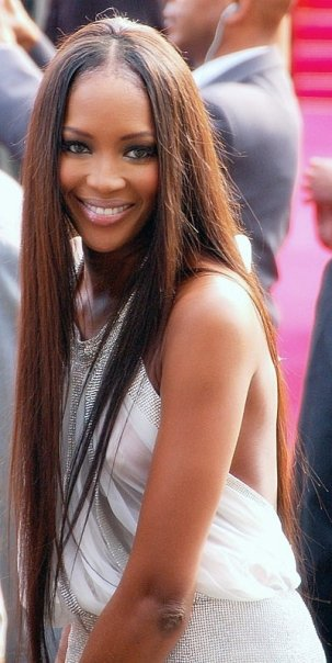 Naomi Campbell at the Cannes film festival